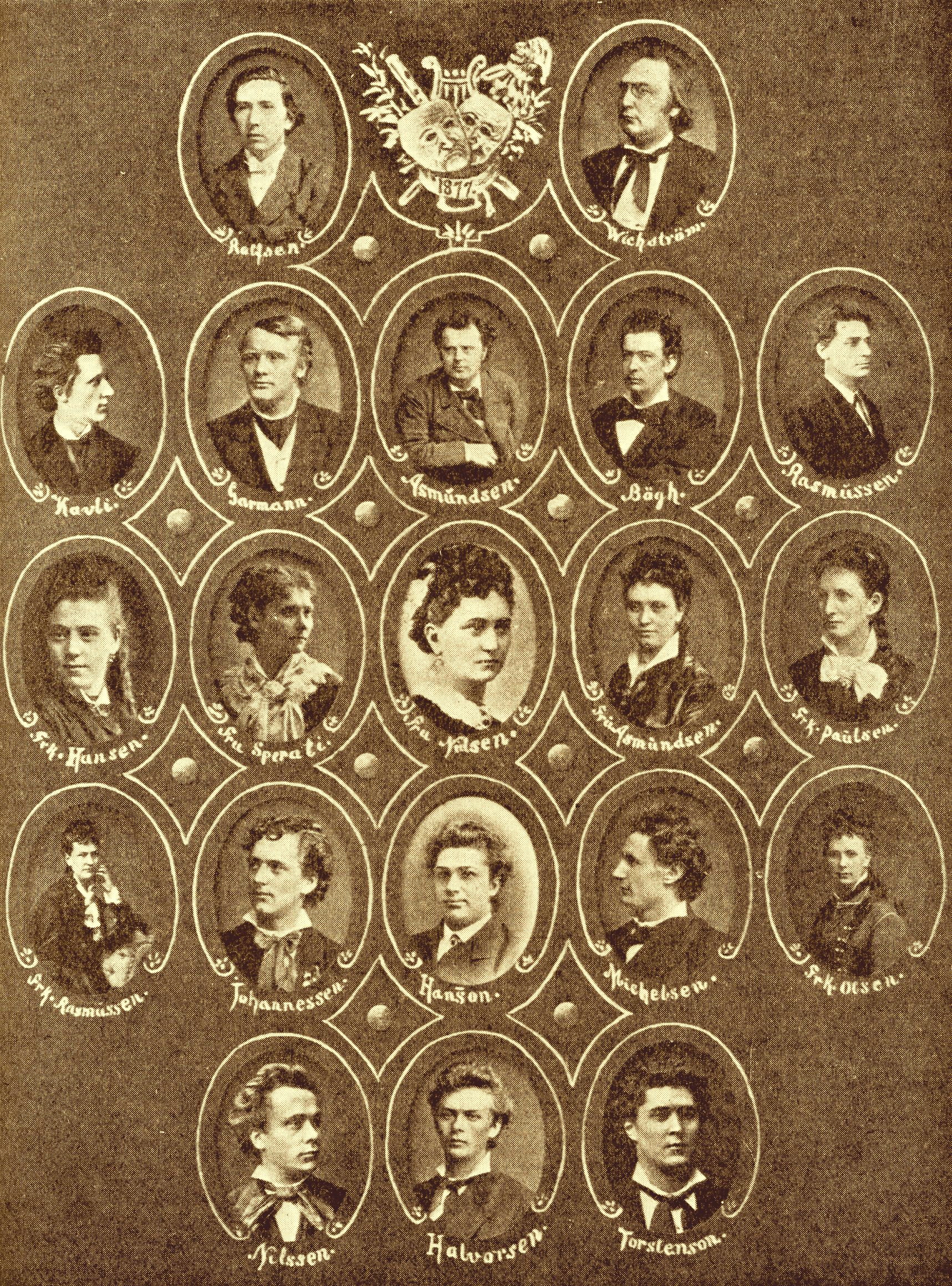 Actors at the national stage in Bergen.